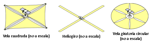 From